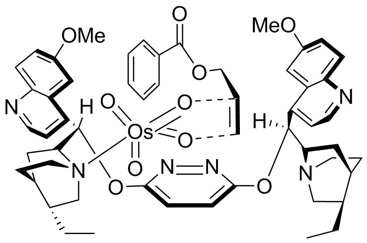 SAD active catalyst conformation